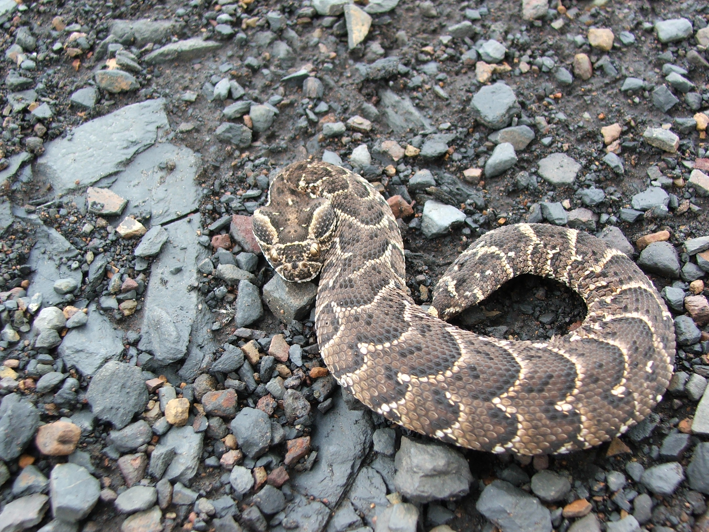 Baby puff adder ready to strike. Picture taken near the town of Groot-Marico in South Africa.